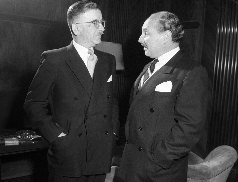 Leopold Figl and Hanns Leo Reich at the Federal Chancellery of the Republic of Austria (1952)